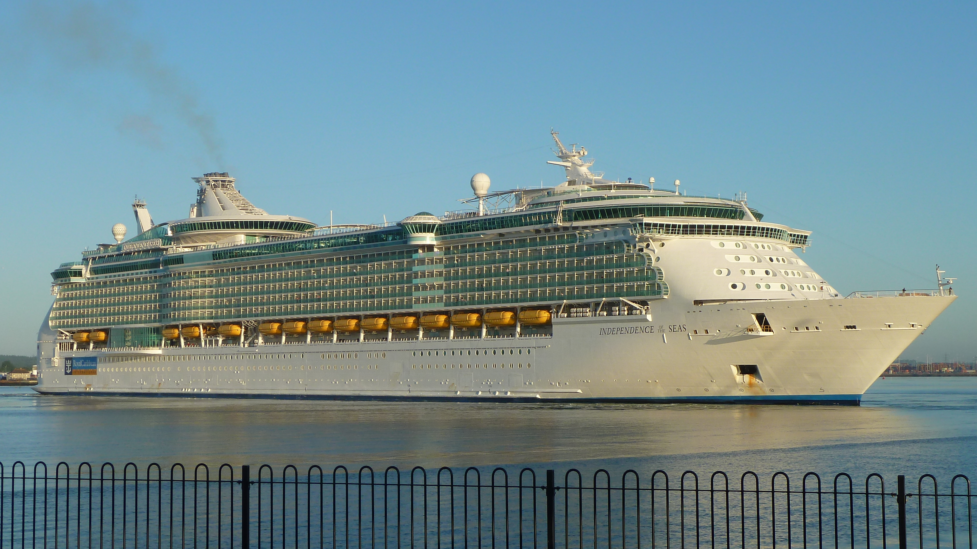 MS Independence of the Seas seen from Mayflower Park, Southampton, docking at the nearby City Cruise Terminal on 14th May 2011